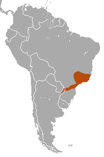 Long-nosed Short-tailed Opossum (Monodelphis scalops) range